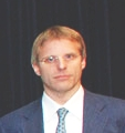 Giulio Tononi, M.D., Ph.D., is neuroscientist. He is a professor in the Department of Psychiatry at the University of Wisconsin-Madison Medical School.